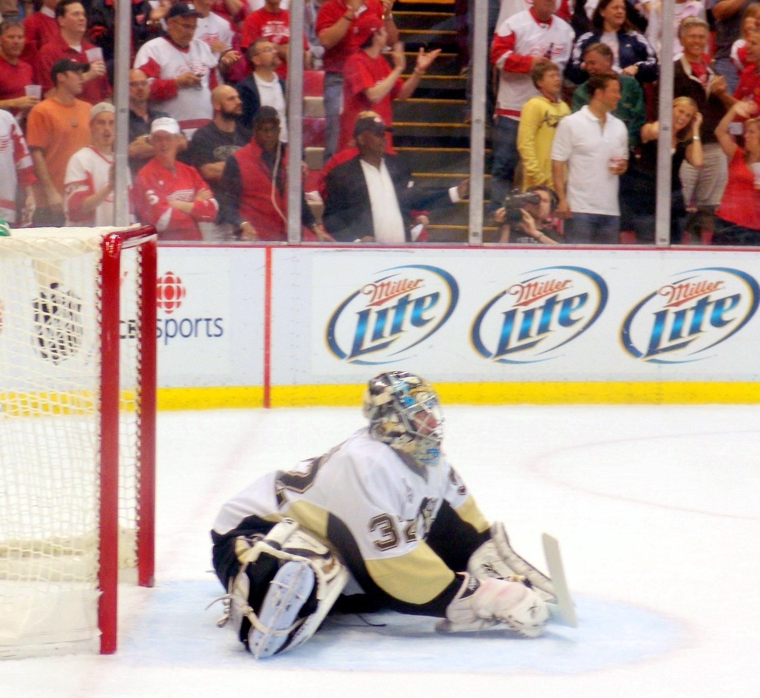 Mathieu Garon relieves starting goaltender Marc-Andre Fleury during the second period of the 2009 Stanley Cup Finals Game 5 between the Detroit Red Wings and Pittsburgh Penguins at Joe Louis Arena in Detroit, MI. The Red Wings led 5-0 in the game, which would be the final score. June 6, 2009.